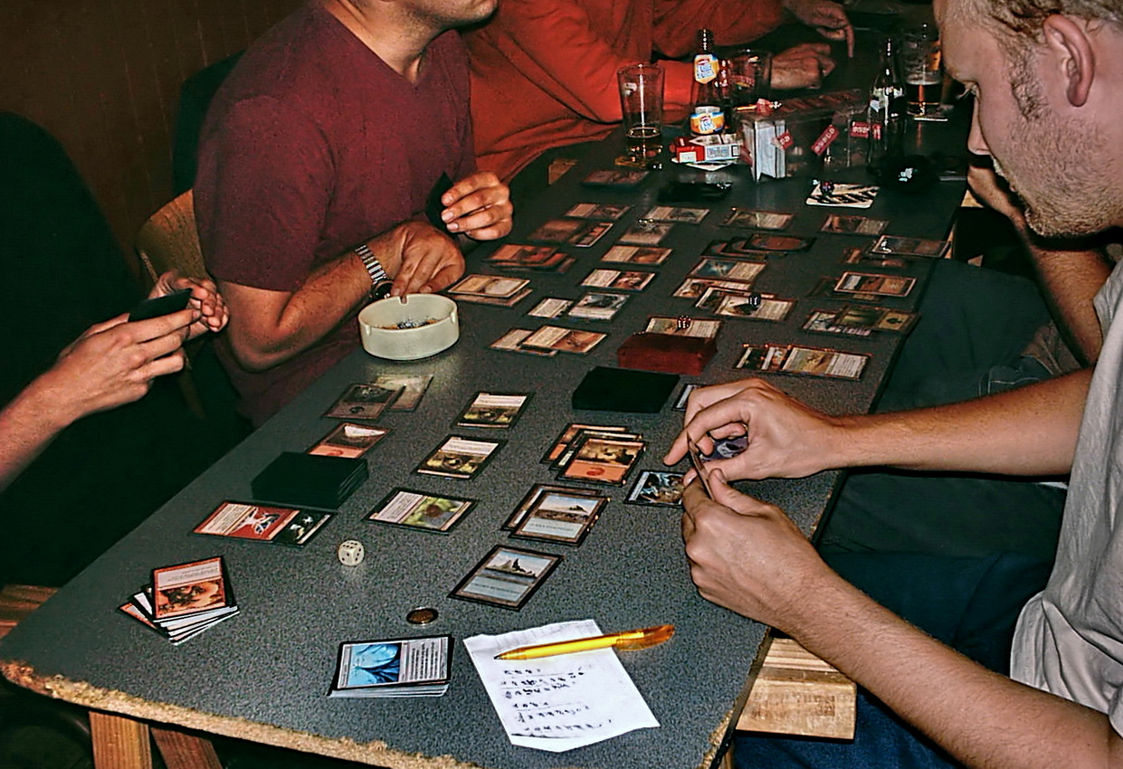 People playing the collectible card game Magic: The gathering.